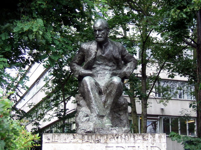 Sigmund Freud in Hampstead The statue of Freud sculpted by Oscar Nemon used to be in an alcove behind Swiss Cottage Library, where it was virtually hidden away from public view. In 1998 the Freud Museum arranged for it to be moved to a more prominent site and it now faces Fitzjohn's Avenue directly in front of the Tavistock Clinic, a world famous psychoanalytic institute that perpetuates his work in many ways.